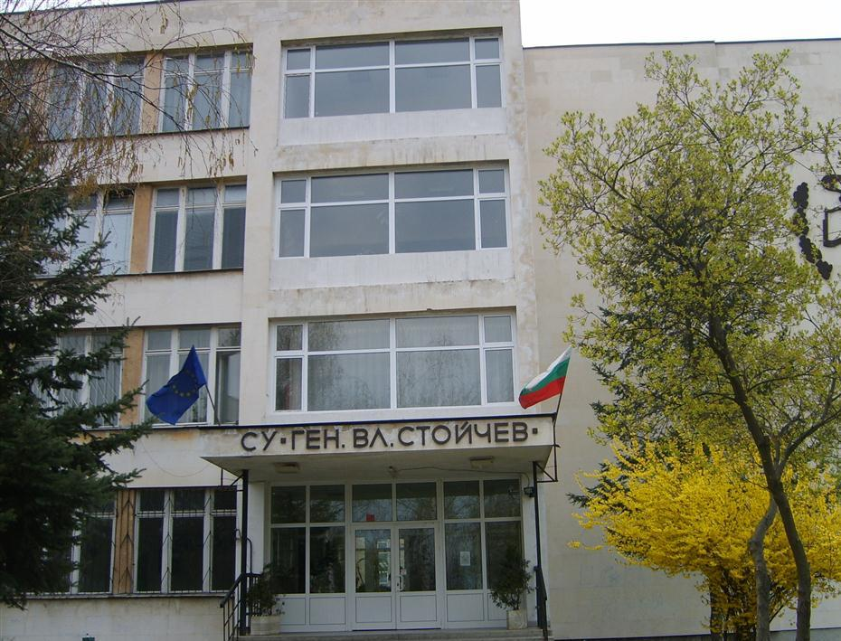 Sport School "Gen. Vladimir Stoychev" in Sofia